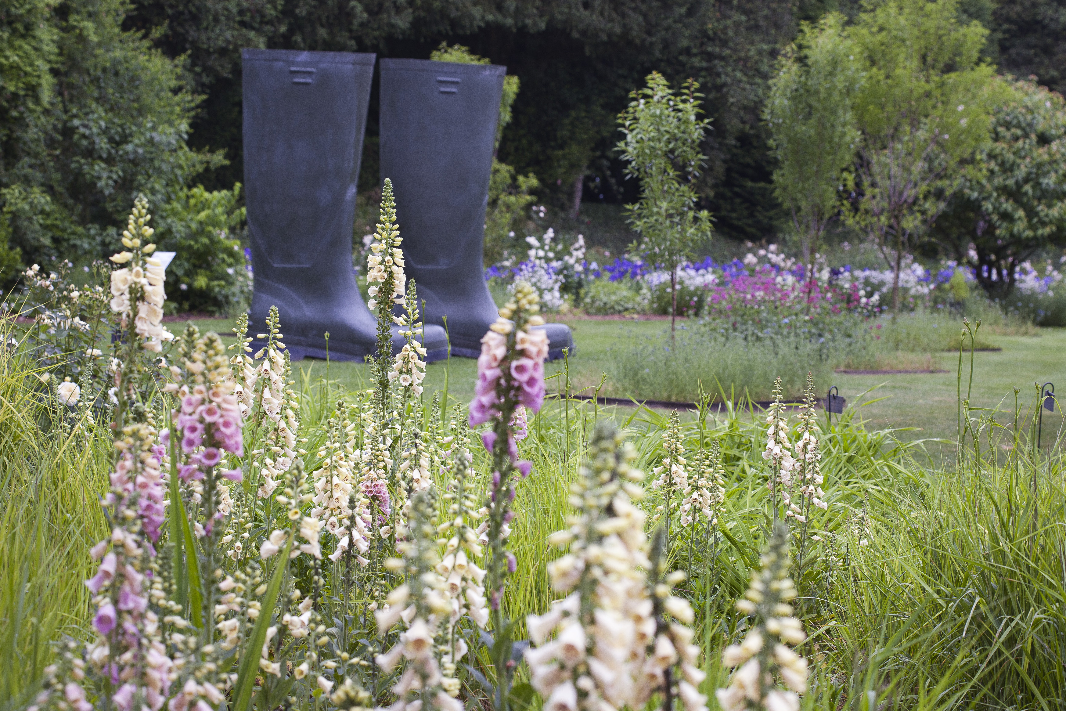 ©chateauduRivau